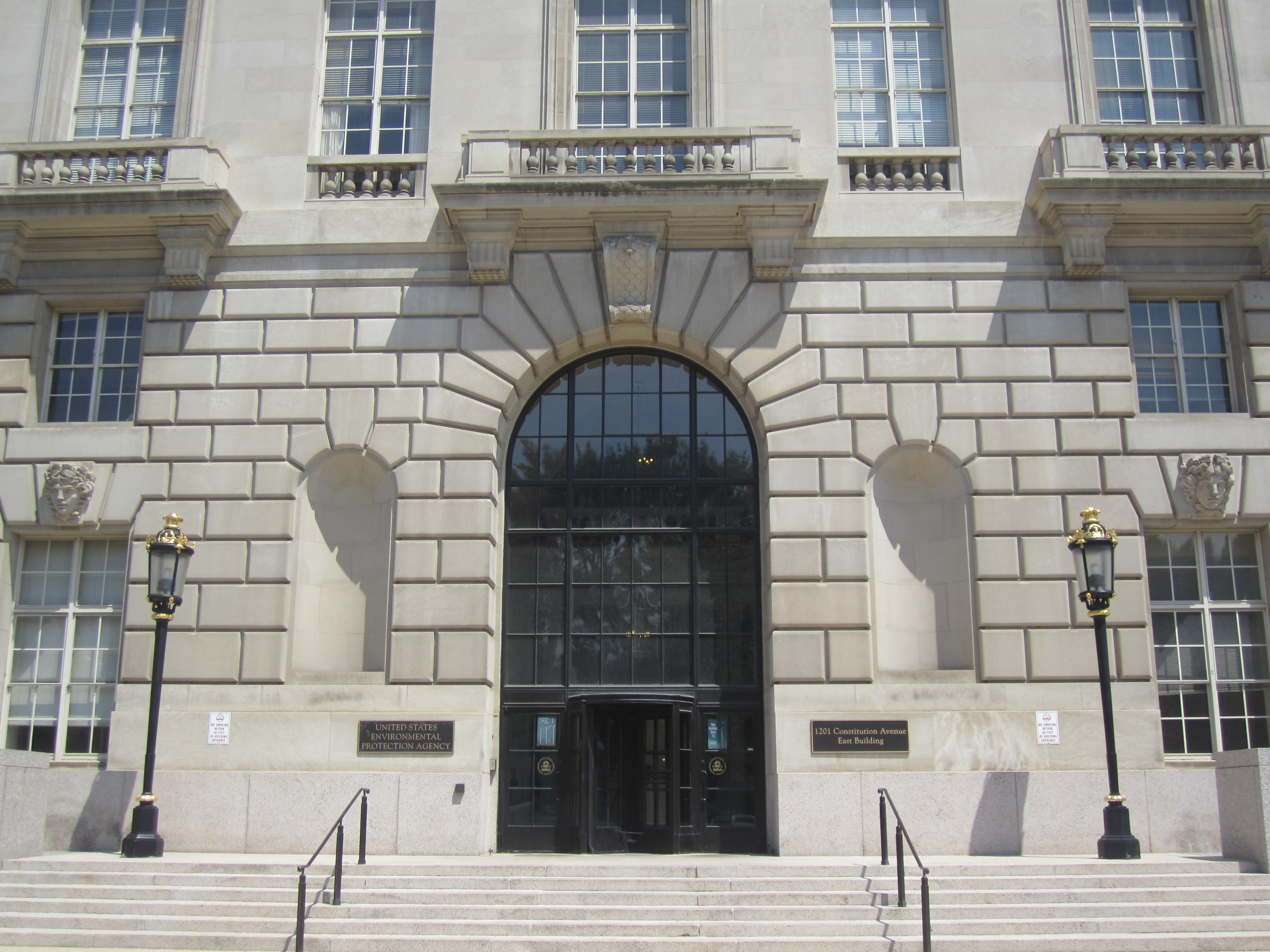 View of the entrance to the former Interstate Commerce Commission Building, built in the Federal Triangle area in Washington, D.C. in 1934. The building was renamed as a component of the William Jefferson Clinton Building in 2013, and is part of the headquarters complex of the United States Environmental Protection Agency (EPA).